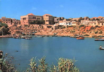 Skyline of Jableh